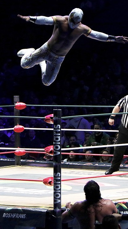 Viernes 30 de noviembre de 2018Arena México, ceremonia de develación de la placa conmemorativa por el reciente decreto de la Lucha Libre como Patrimonio Cultural Intangible de la Ciudad de México, estuvieron presentes autoridades del Consejo Mundial de Lucha Libre, y autoridades del gobierno de la CMDX, entre ellos Gabriela López Torres, coordinadora de Patrimonio Histórico Artístico y Cultural de la Secretaría de Cultura de la CDMX, además de invitados especiales.Fotografía: Tania Victoria/ Secretaría de Cultura CDMX